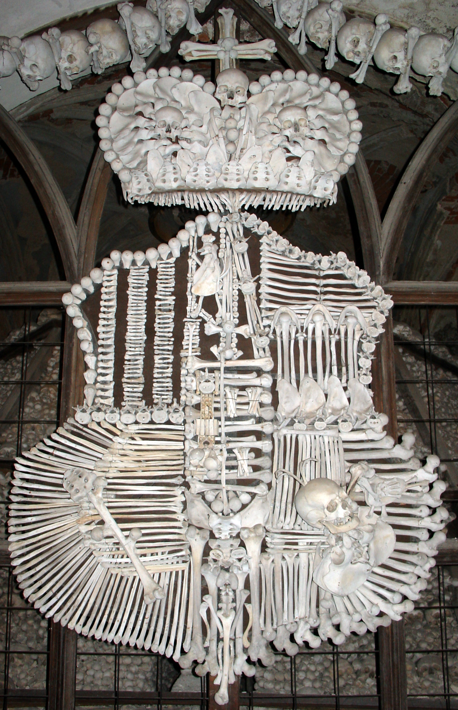 The coat of arms of the Schwarzenberg family at the Sedlec Ossuary in Kutna Hora, Czech Republic.